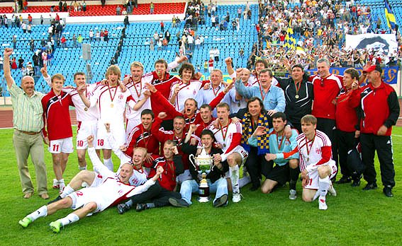 FC Naftan with the cup of Belarus. 31 May 2009